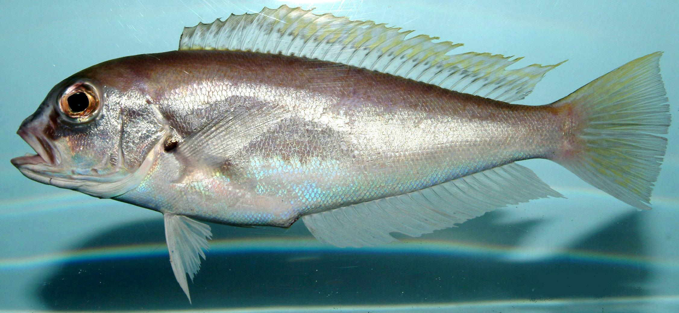 Anchor tilefish (Caulolatilus intermedius ). Gulf of Mexico.